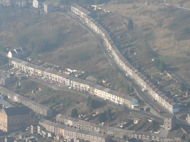 Tylorstown: Brynbedw Road A view of Brynbedw Road, as it climbs steeply the western side of the Rhondda valley, from high up on the eastern side.